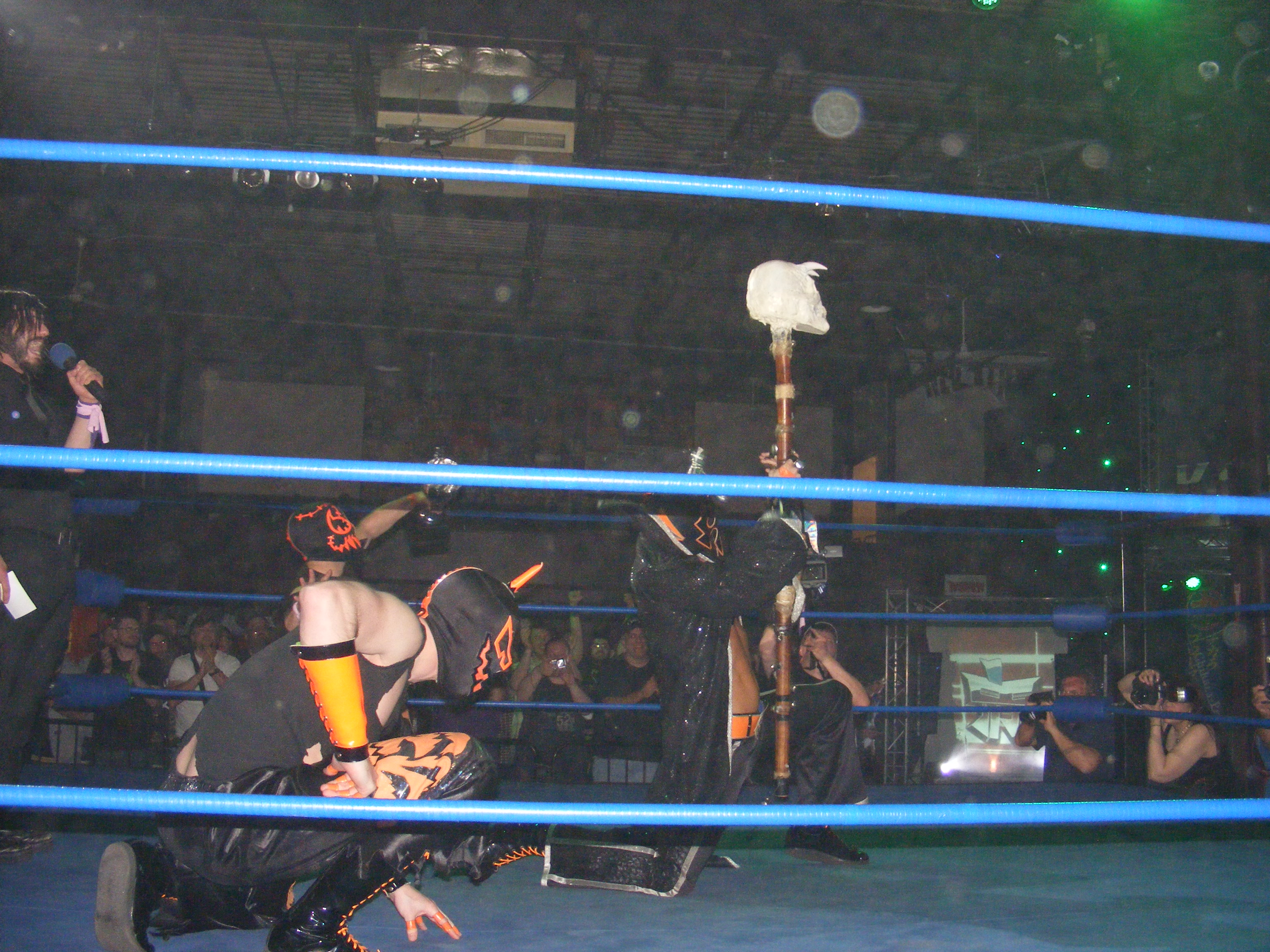 Professional wrestlers UltraMantis Black, Hallowicked and Frightmare at Chikara King of Trios 2011.